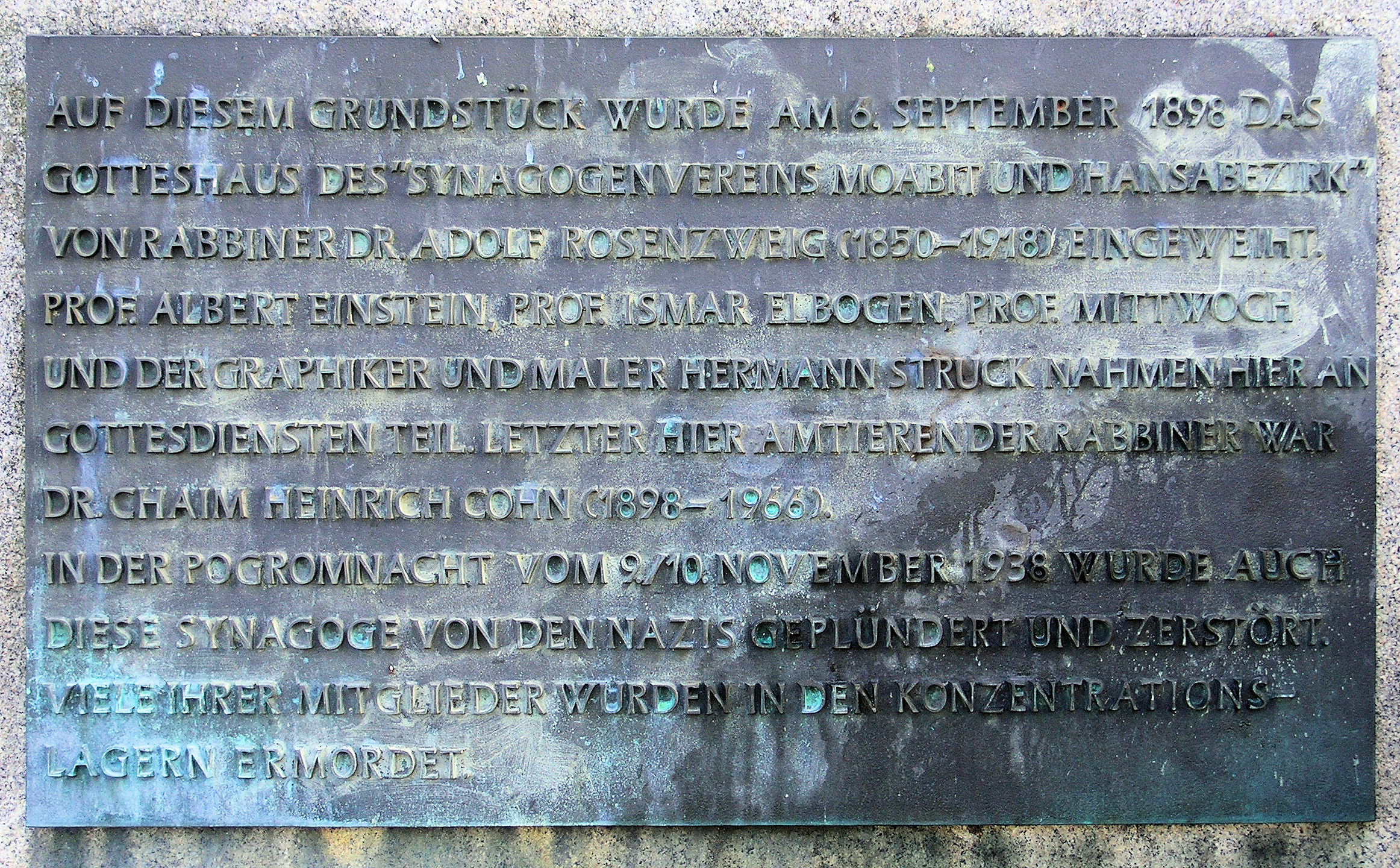 Memorial plaque, Synagoge Synagogenverein Moabit und Hansabezirk, Lessingstraße 6, Berlin-Hansaviertel, Germany